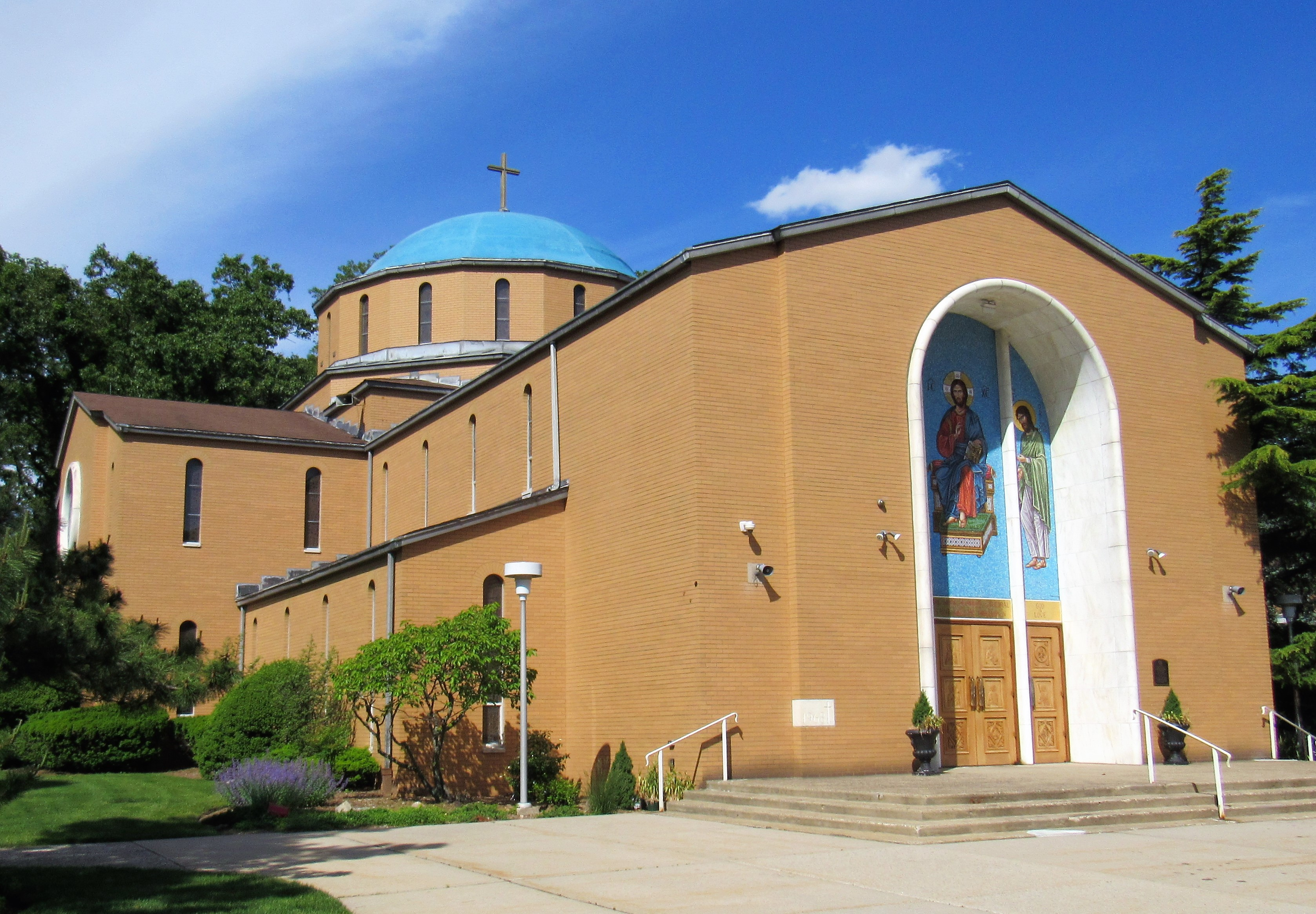 Cathedral of St. John the Theologian in Tenafly, New Jersey.